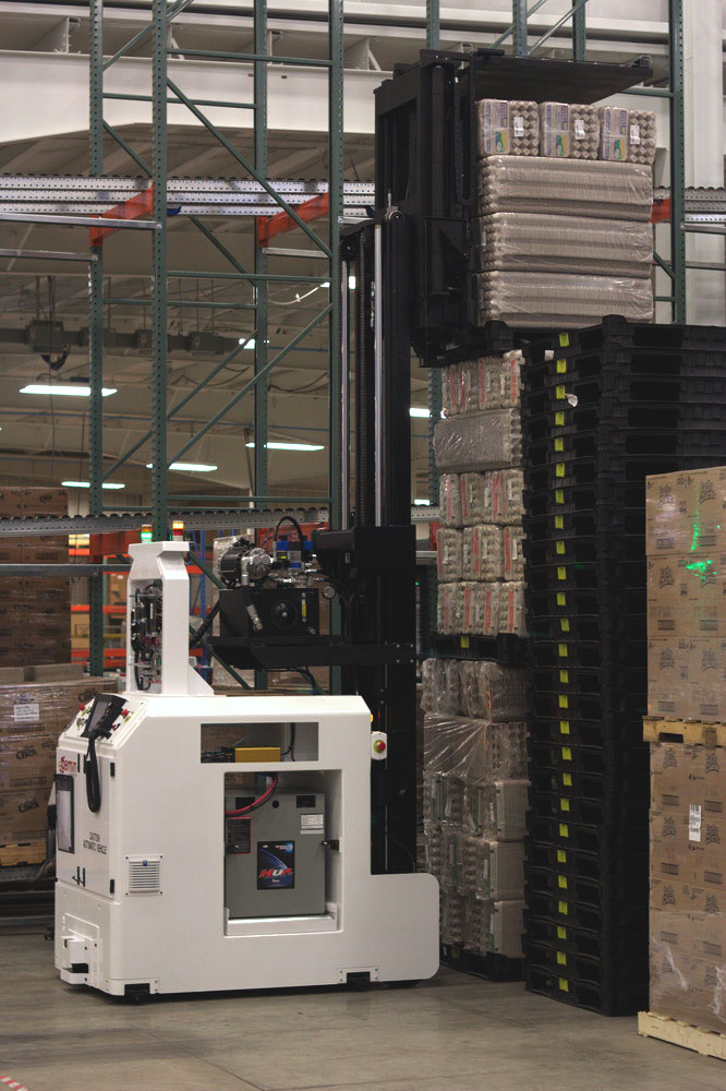 Forklift AGV with Stabilizer Pad, courtesy of Egemin Automation Inc.